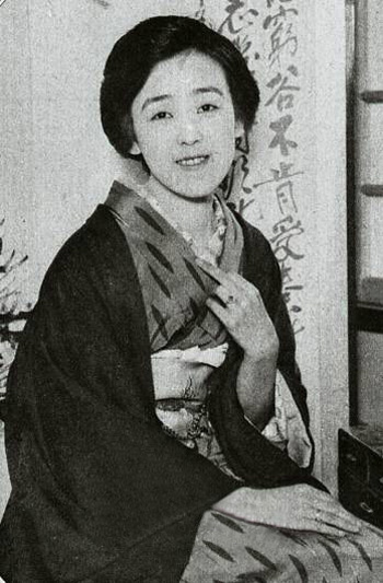 Yukiko Yamada （1901 - 1961） was a Japanese writer.